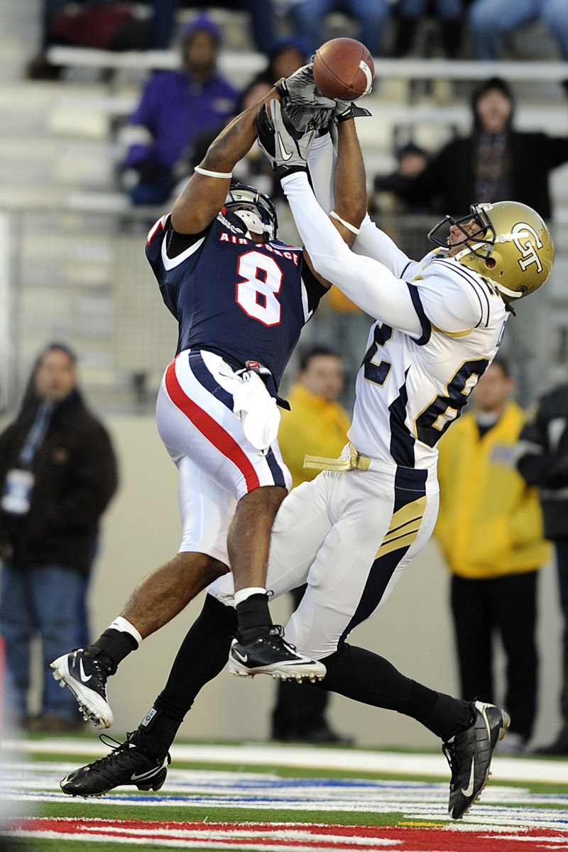 Air Force defensive back Jon Davis breaks up a pass intended for Georgia Tech running back Embry Peeples in the end zone during the Advocare V100 Independence Bowl in Shreveport, La., Dec. 27, 2010. Davis, a native of Cincinnati, intercepted Georgia Tech quarterback Tevin Washington with 15 seconds to play, securing Air Force's 14-7 victory.